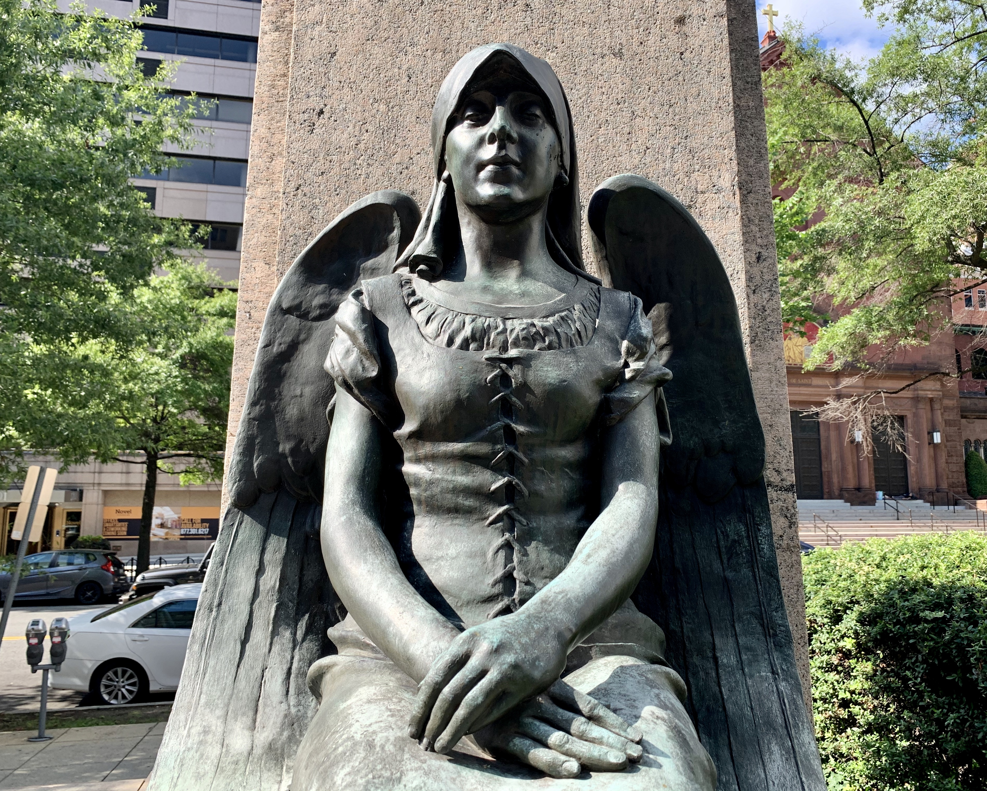 Nuns of the Battlefield monument in Washington, D.C